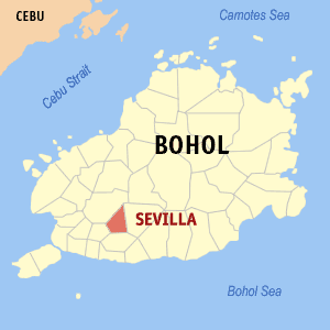 Map of Bohol showing the location of Sevilla